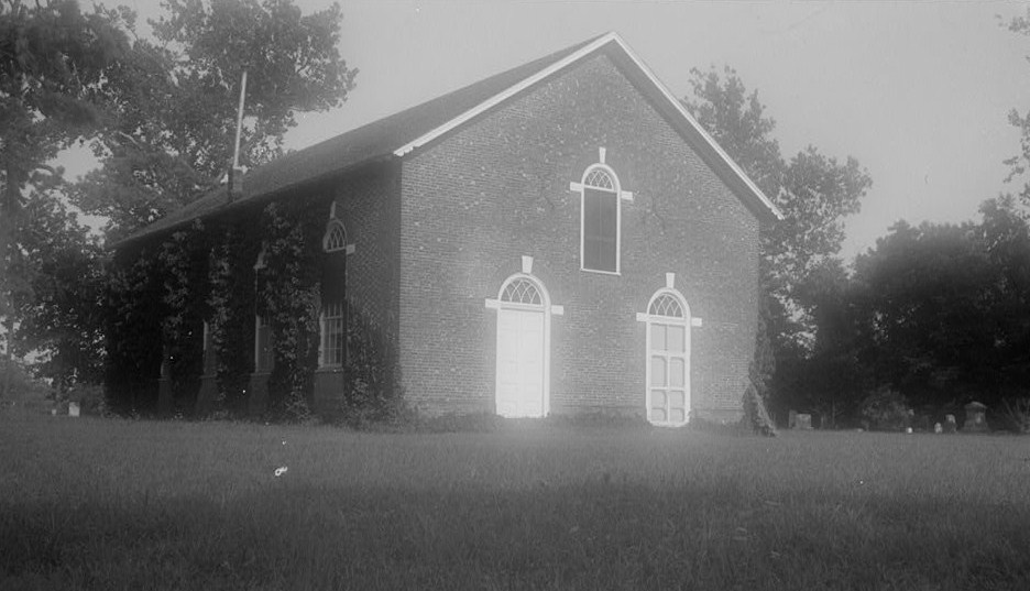 Hungar's Church, State Route 619, Bridgetown vicinity (Northampton County, Virginia), cropped, HABS VA,66-____,1-1